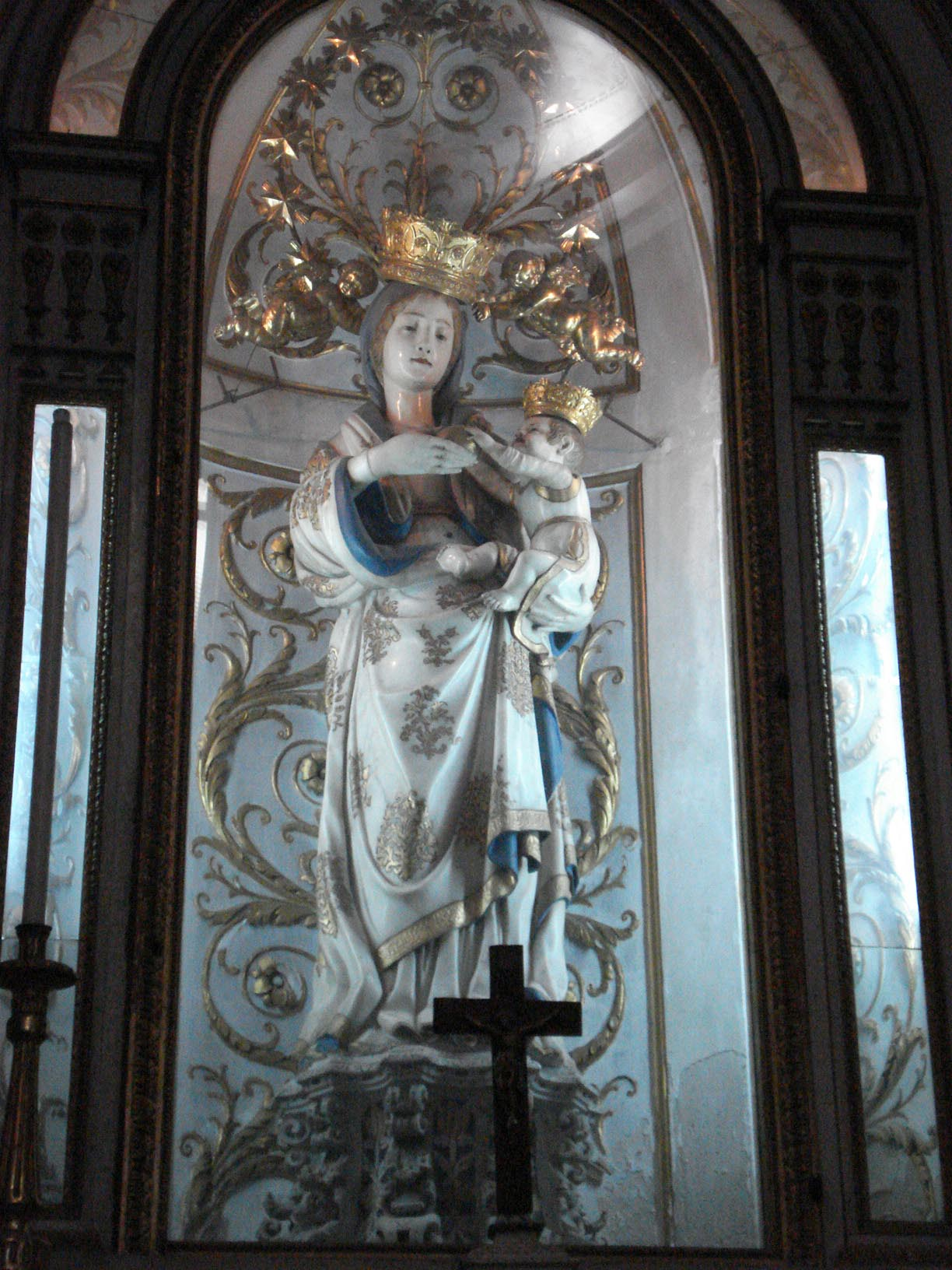 Cathedral of Palermo (Italy): Madonna_Libera_Inferni, by Francesco Laurana (15th century)